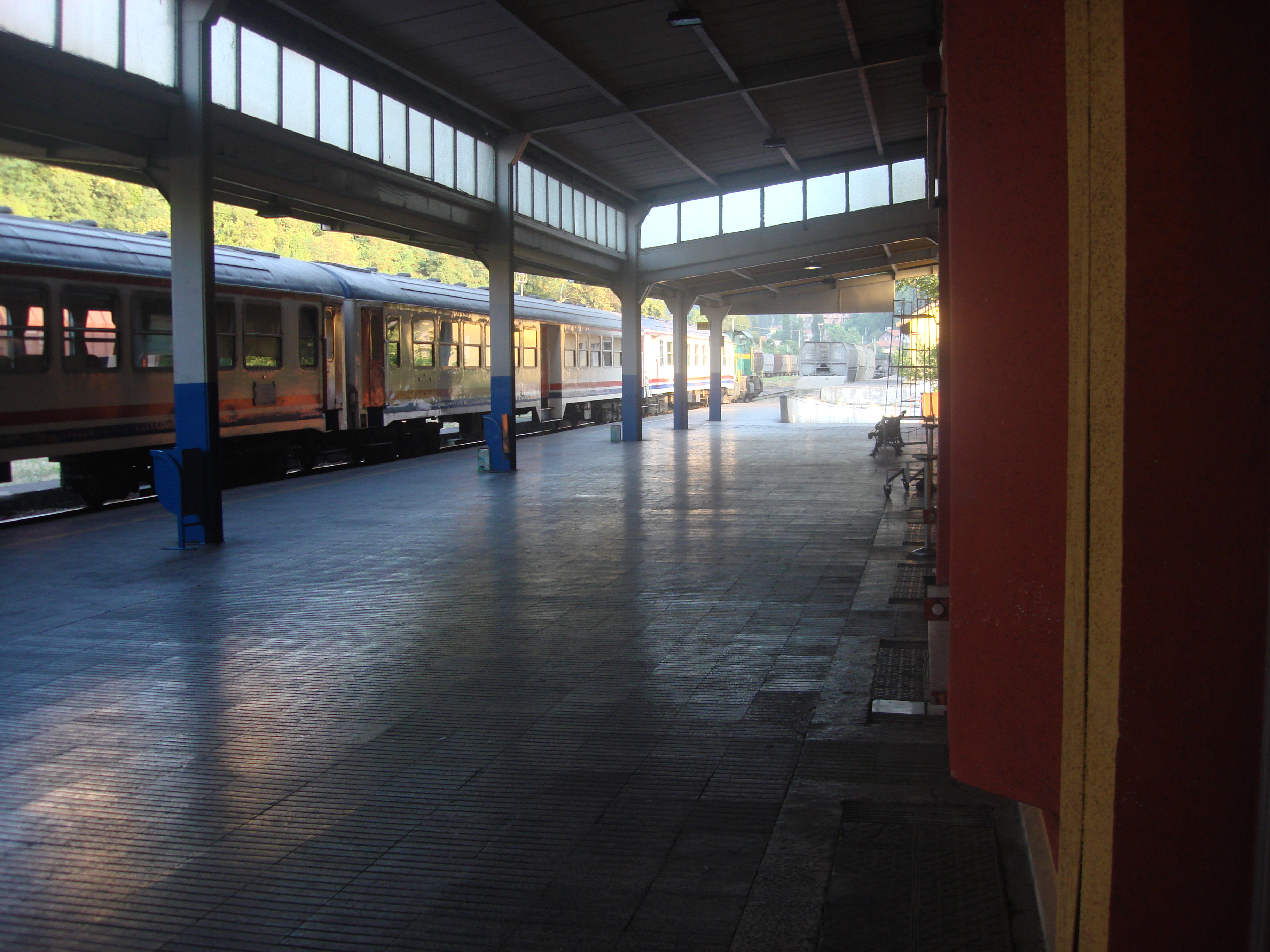 Zonguldak Railway Station (Turkish: Zonguldak Garı) is the main railway station in the city of Zonguldak, Turkey.